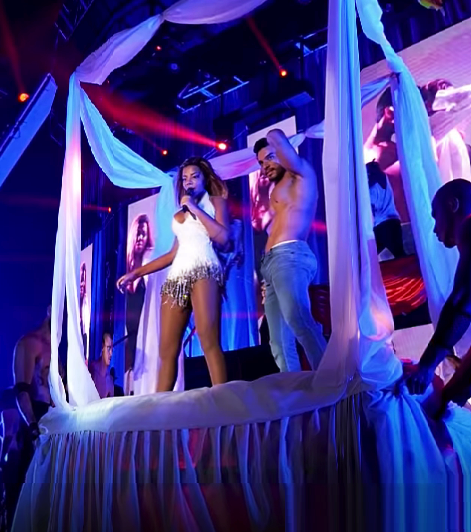 Ludmilla canta no Rio de Janeiro em 2016.